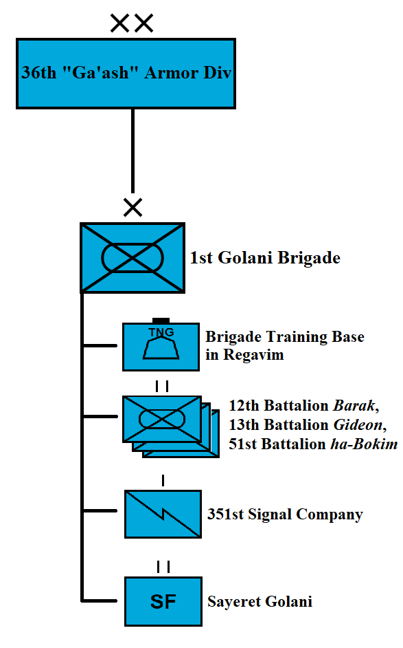 The structure of Golani Brigade after 2018 reform